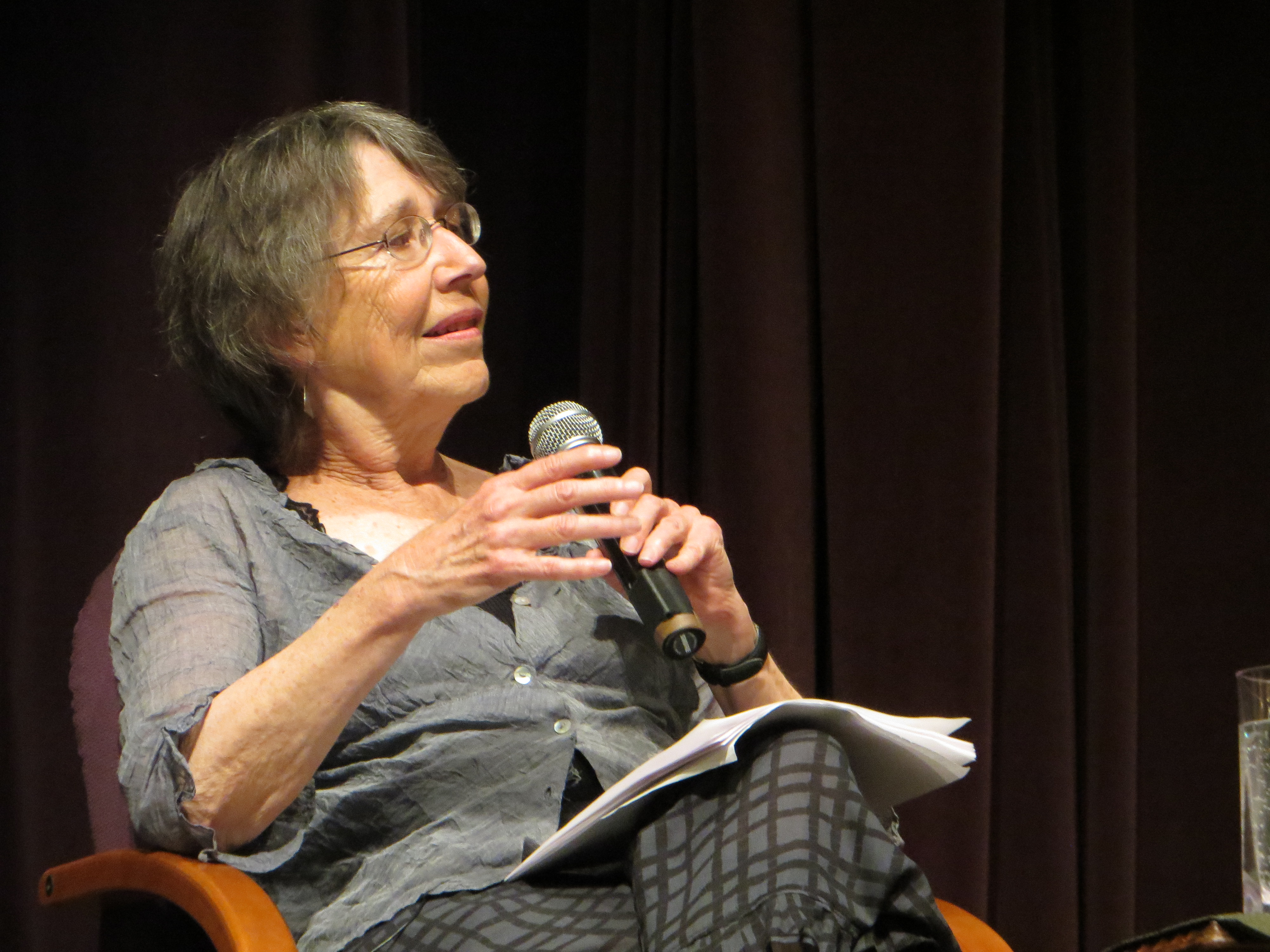 Jean Lave addresses Rogers Hall during their opening keynote at ICLS 2014. Jean Lave addresses Rogers Hall during their opening keynote at ICLS 2014.